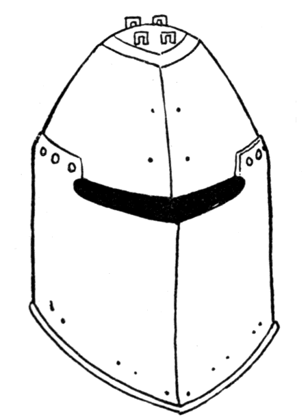 Fig. 582. The helm of Sir Richard Hawberk, who died in 1417, is made of five pieces, and is very thick and heavy. It is much more like the later form adapted for jousting, and was probably only for use in the tilt-yard; but, although more firmly fixed to the cuirass than the earlier helm, it did not fit closely down to it, as all later helms did.